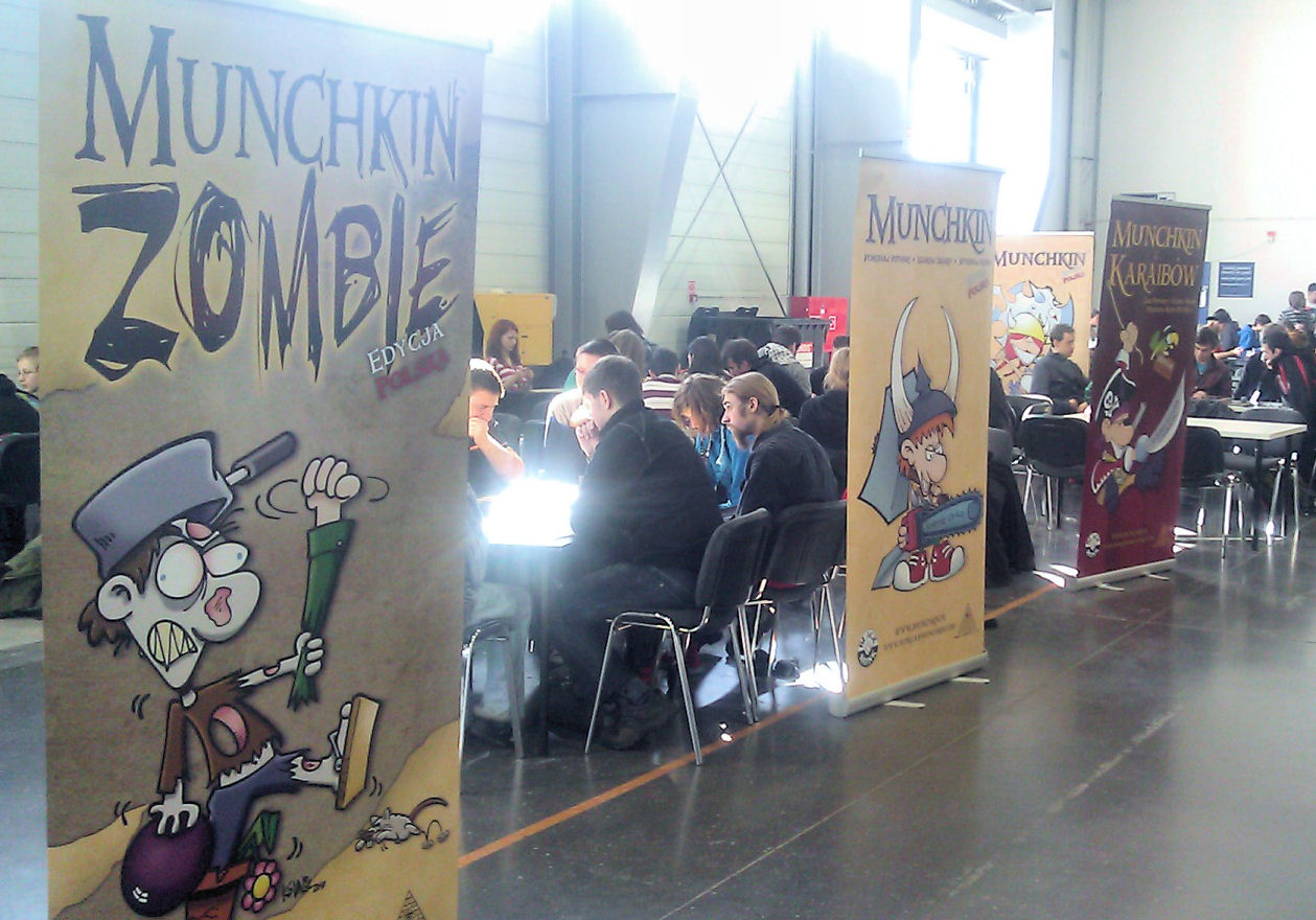 Munchkin - play area, Pyrkon 2013, Poznań, Poland